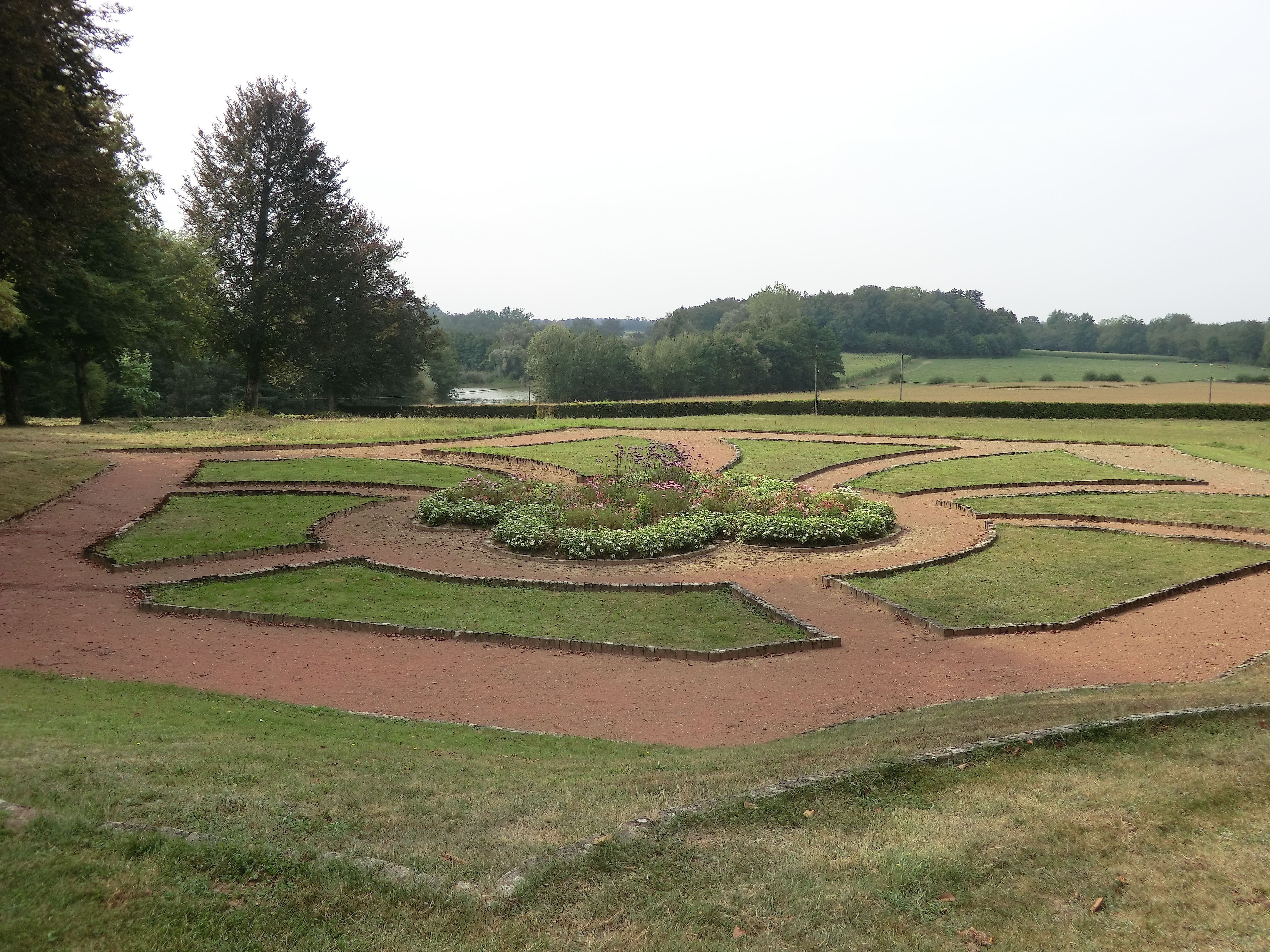 Château de Joyeux. .